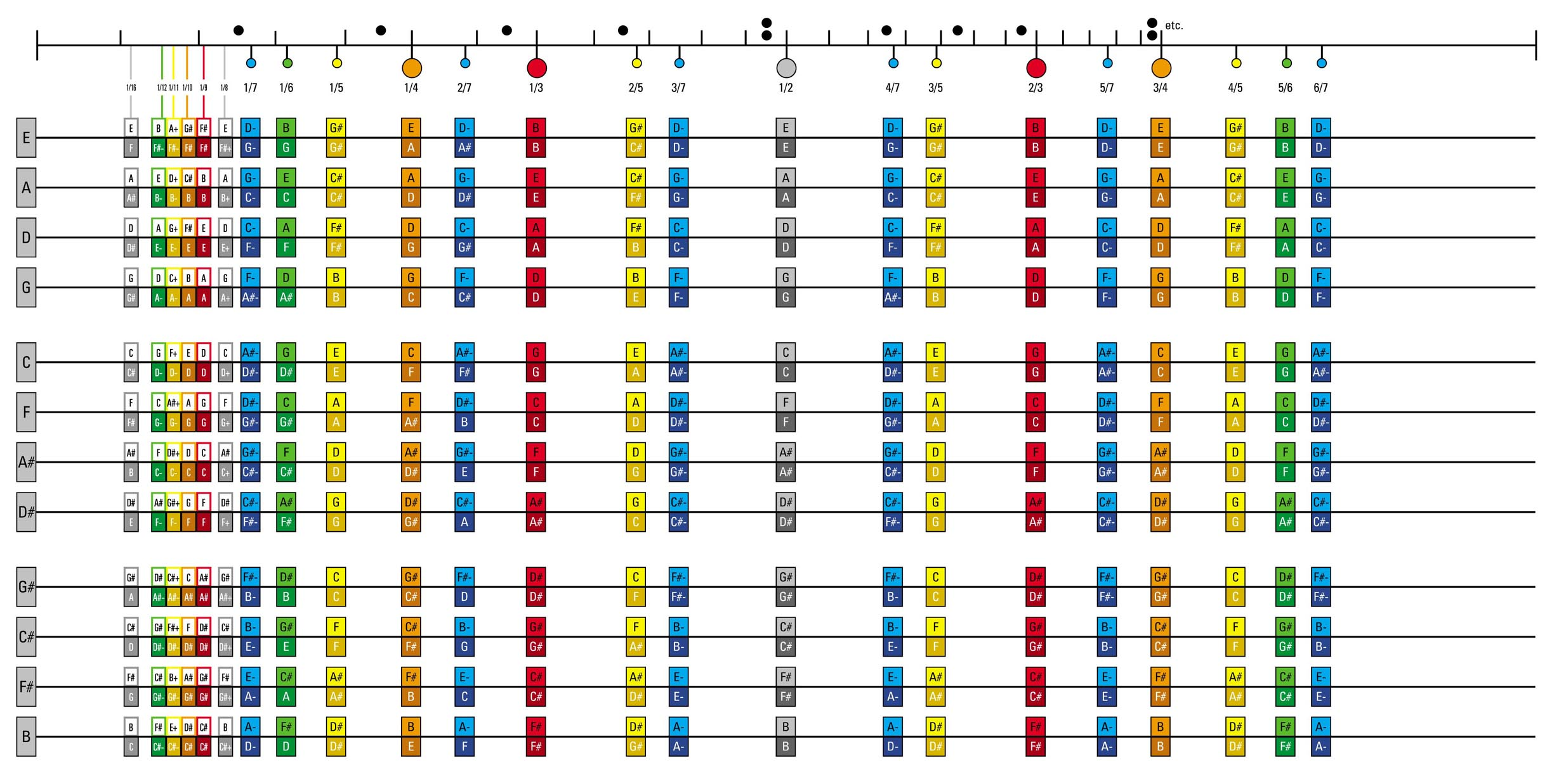 Overtonesandundertones scedule of the moodswinger